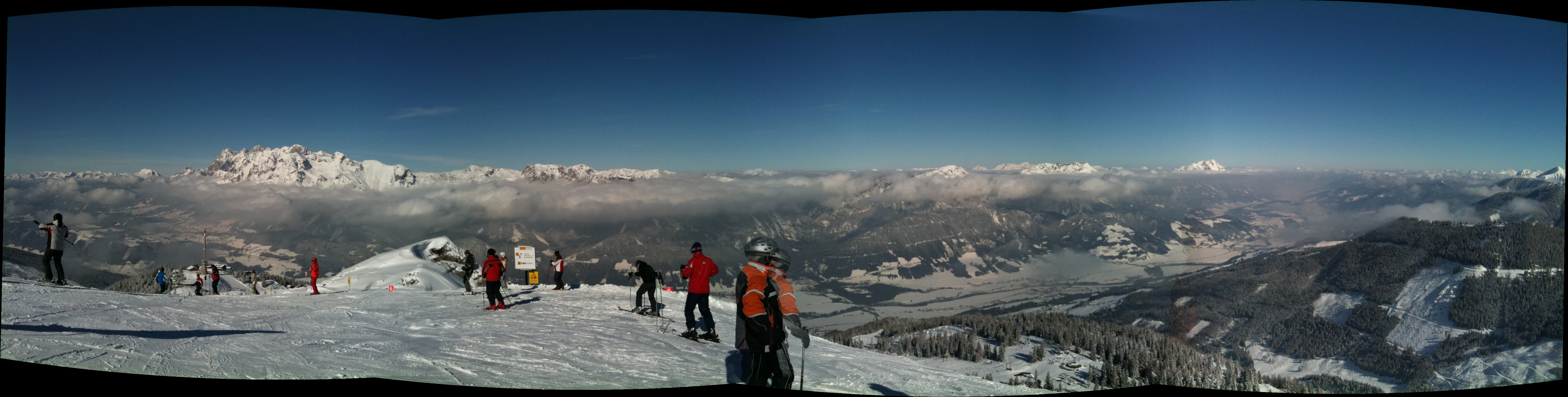 Hauser Kaibling panorama